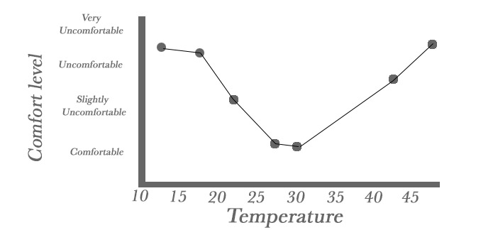 Anthony Chen :)